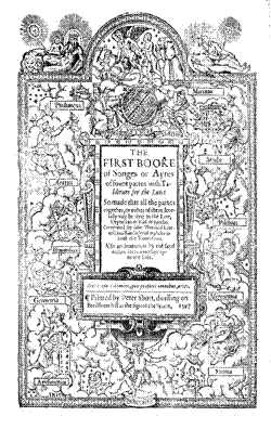 Front page of First Booke of Songes or Ayres of Foure Partes with Tableture for the Lute, book by John Dowland